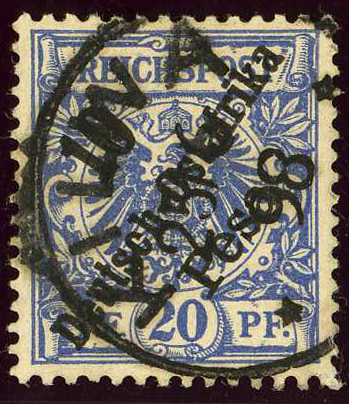 10 pesa surcharge on 20 pfg German Empire, Deutsch-Ostafrika, circle cancel at KILWA on 25 June 1898. Michel N°9.